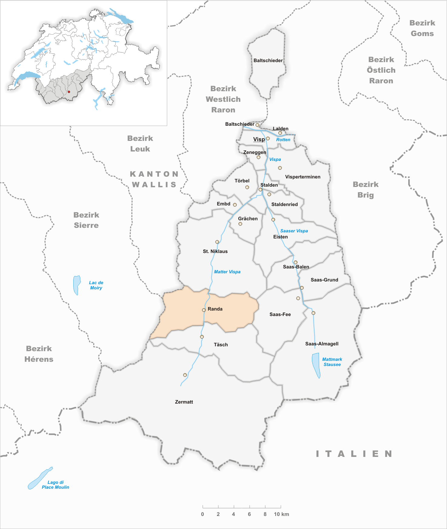 Municipality Randa